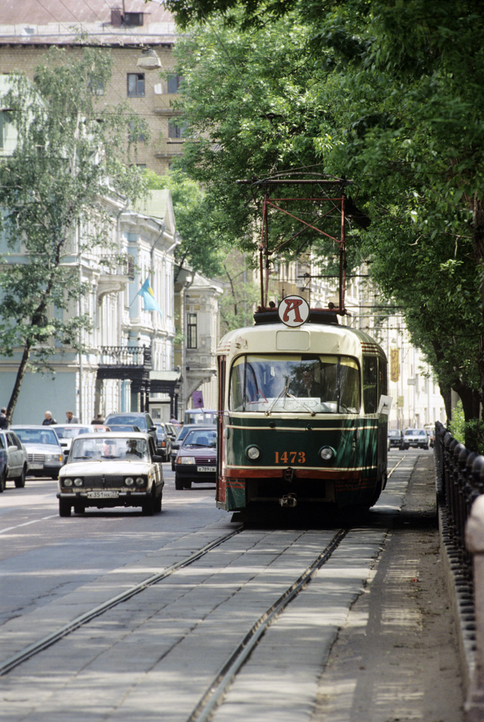 “Street car service A”. Street car service A of the Apakov street car depot. // North side of Chistoprudny Boulevard, approaching Chistye Prudy terminus.